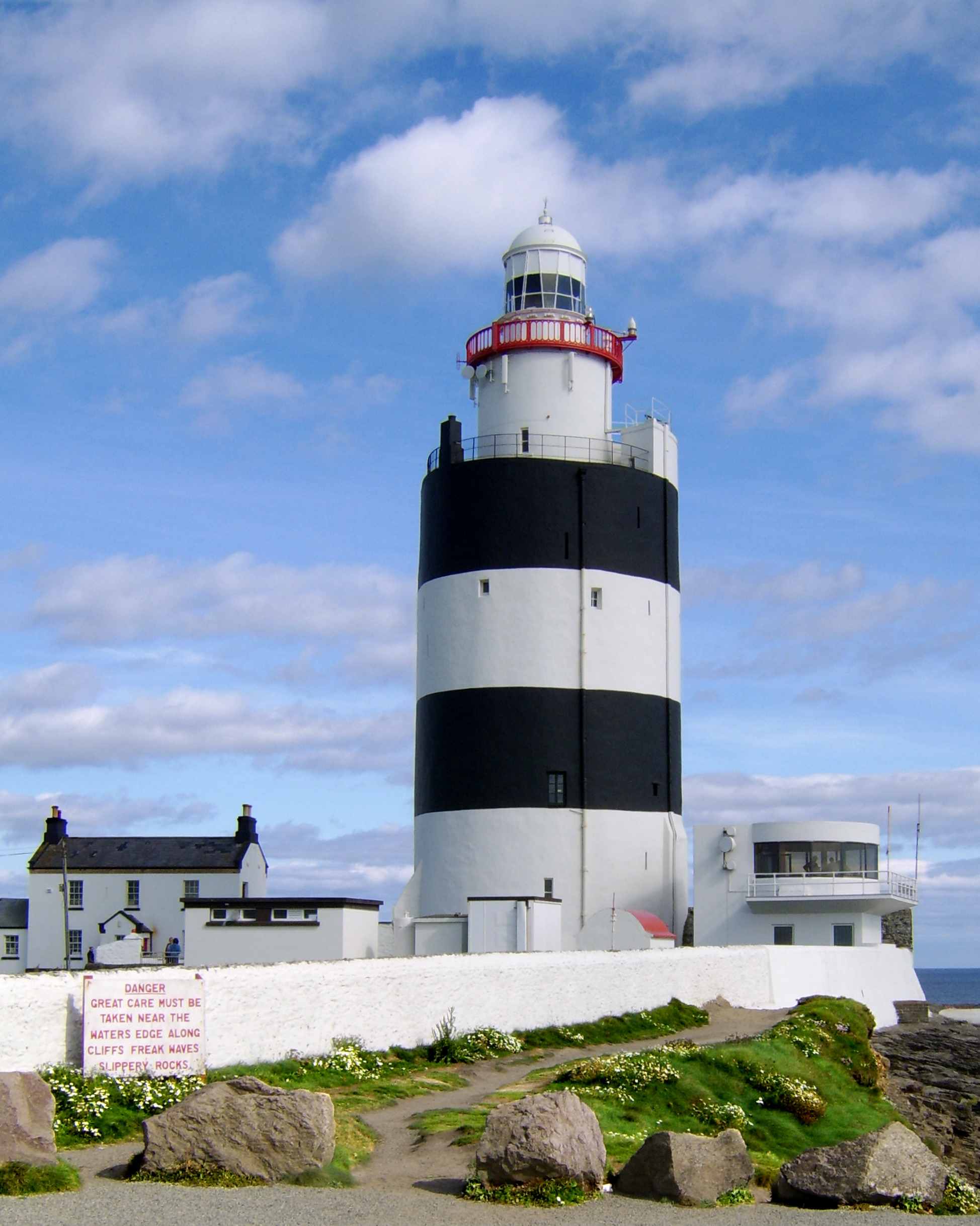 Hook Head Lighthouse: One of the oldest working lighthouses in Europe at around 800years old. Built under the supervision of William Marshall, son in law of Strongbow and Aoife, it replaced an informal beacon which the monks there had set up and maintained previously. Lies across the estuary from Dunmore East and Passage East. The location is reputedly partly responsible for the expression 'by Hook or by Crook', Crooke is across the water near Passage East.